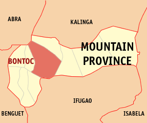 Map of Mountain Province showing the location of Bontoc